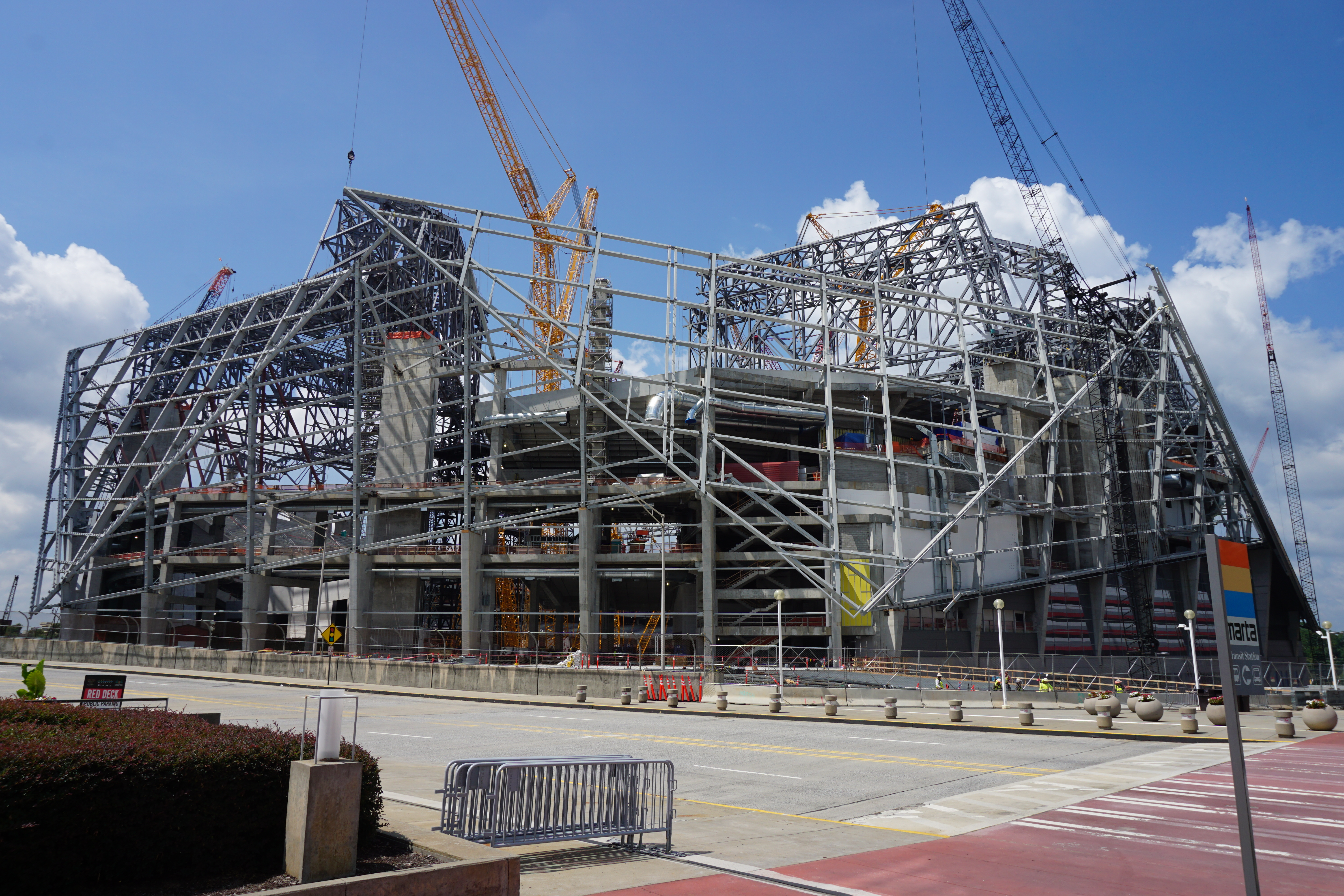 Mercedes-Benz Stadium (under construction) in Atlanta, Georgia (United States).